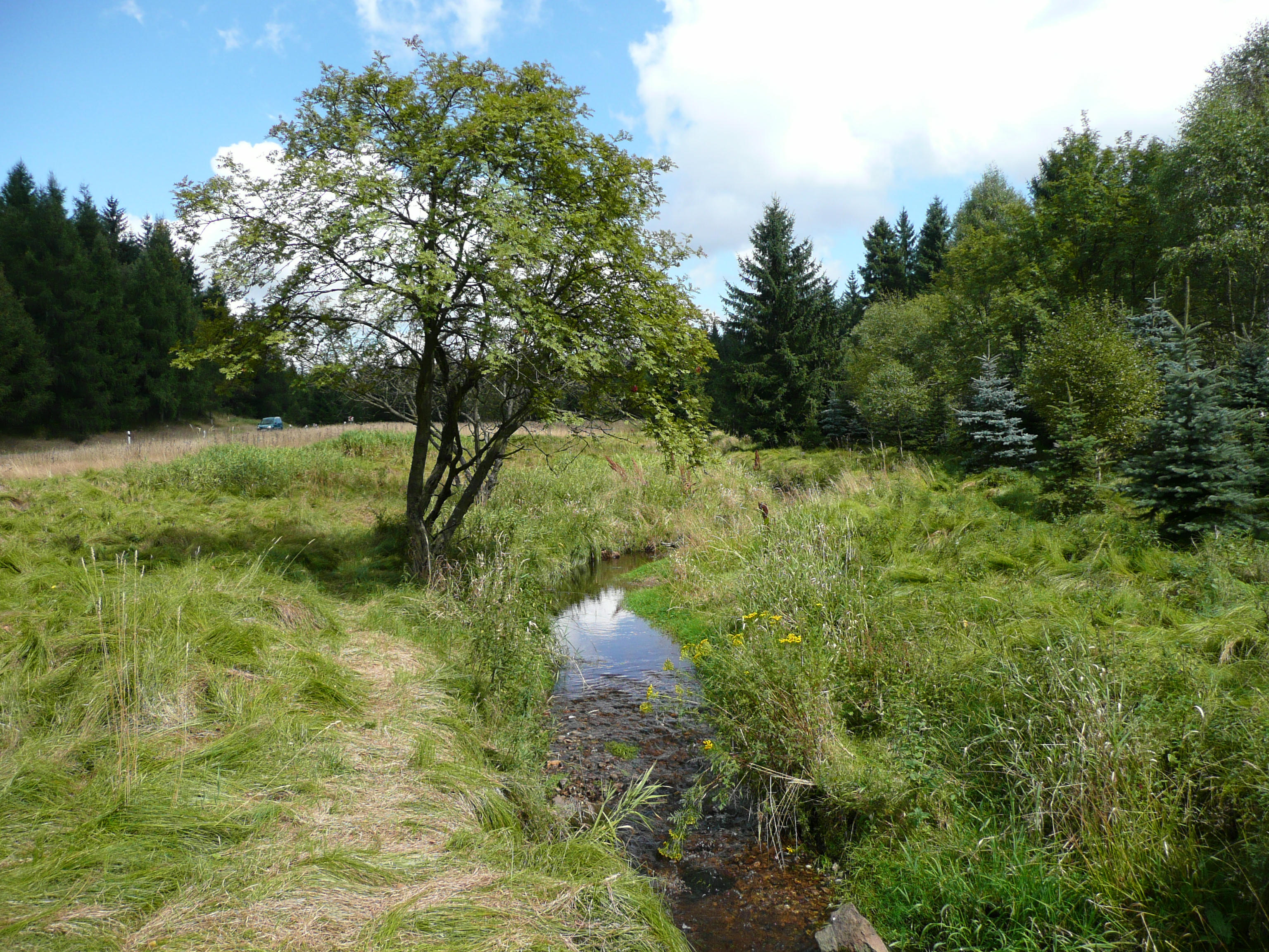 This image shows the river Schwinitz, a left tributary of the Flöha, near Deutschneudorf.